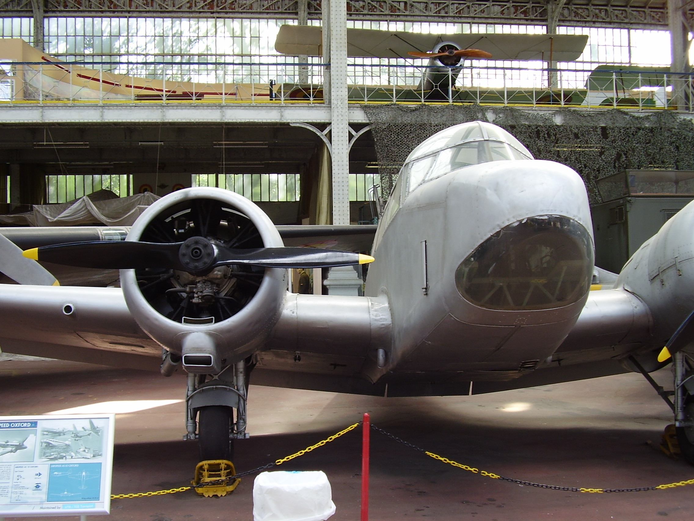 Airspeed Oxford in the Royal Military Museum at the Jubelpark, Brussels.